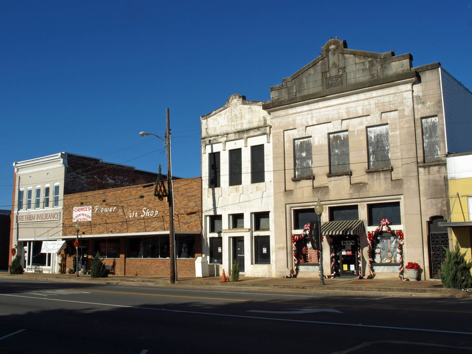 Buildings on West Front Street in Evergreen, Alabama, part of the New Evergreen Commercial Historic District